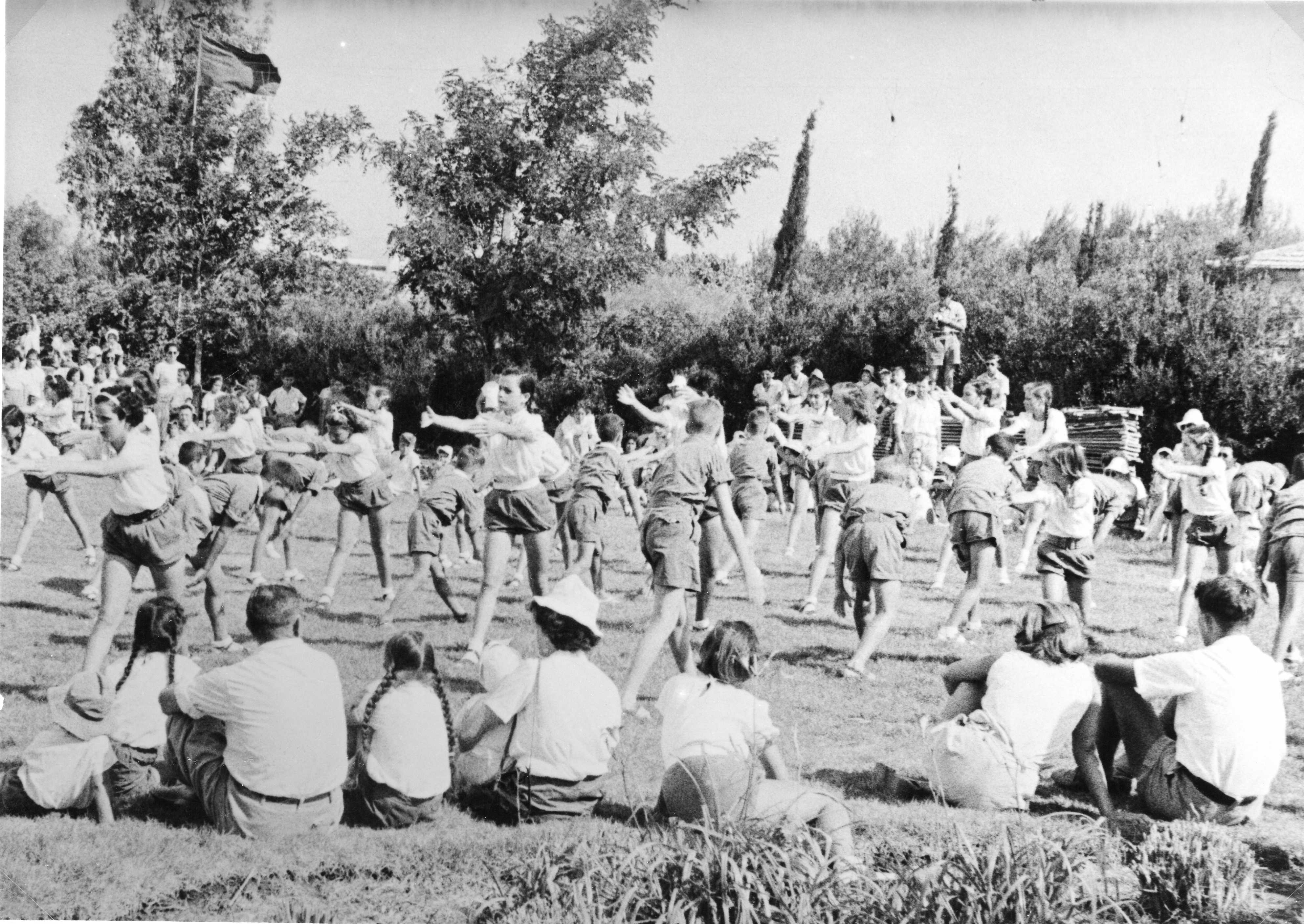 Sports education forties was very important for children. Exercise was one of the least pleasant experiences but the health of the body it was importan